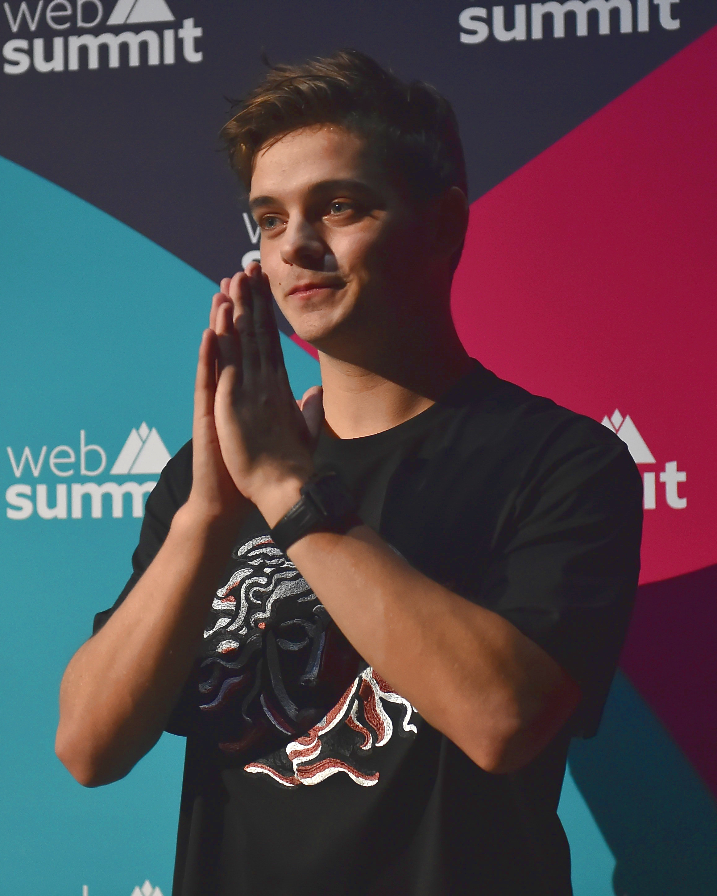 Martin Garrix backstage during day three of Web Summit 2017 at Altice Arena in Lisbon.